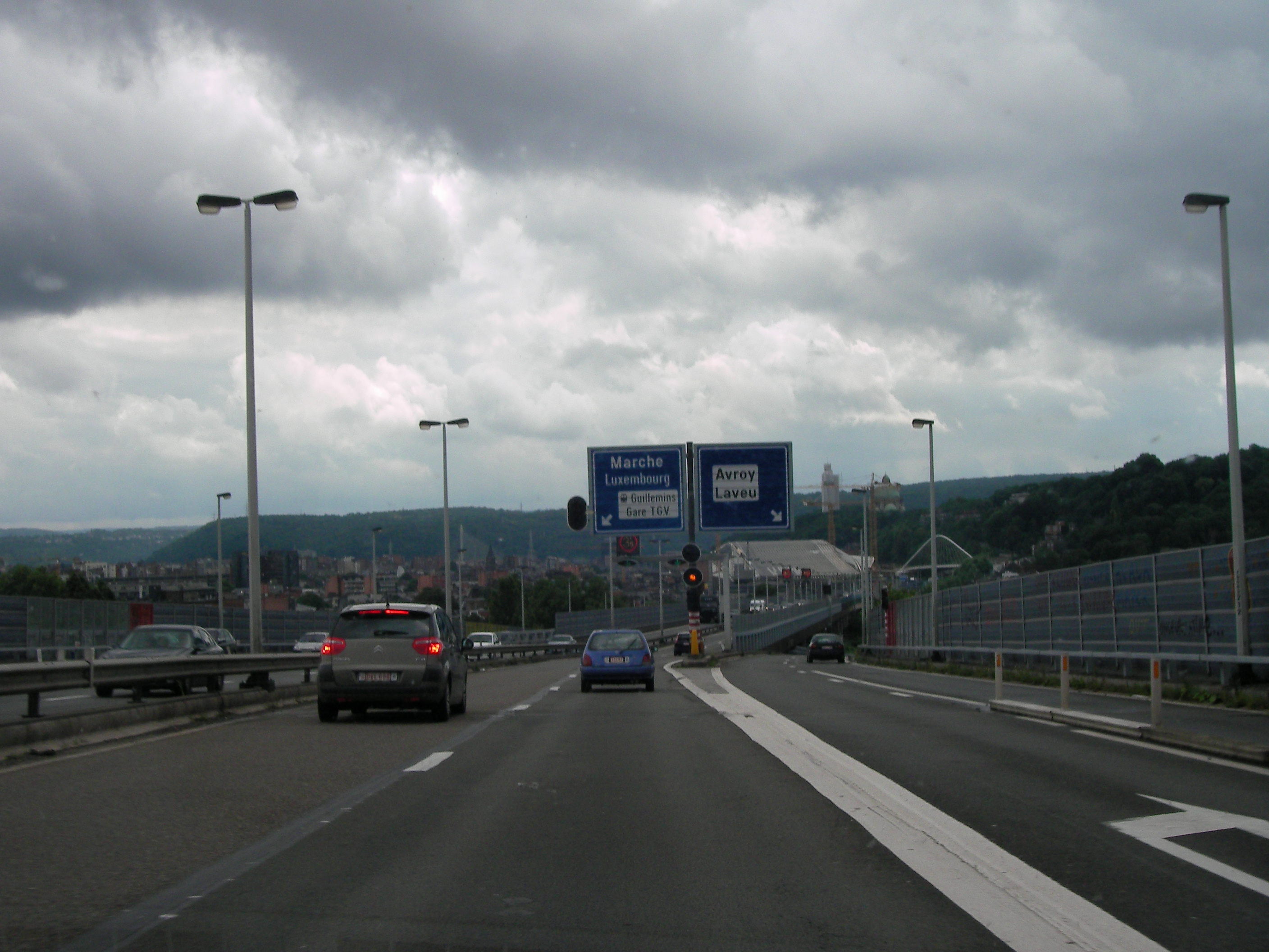 A602 (Belgium) in Liège near the Tunnel de Cointe.